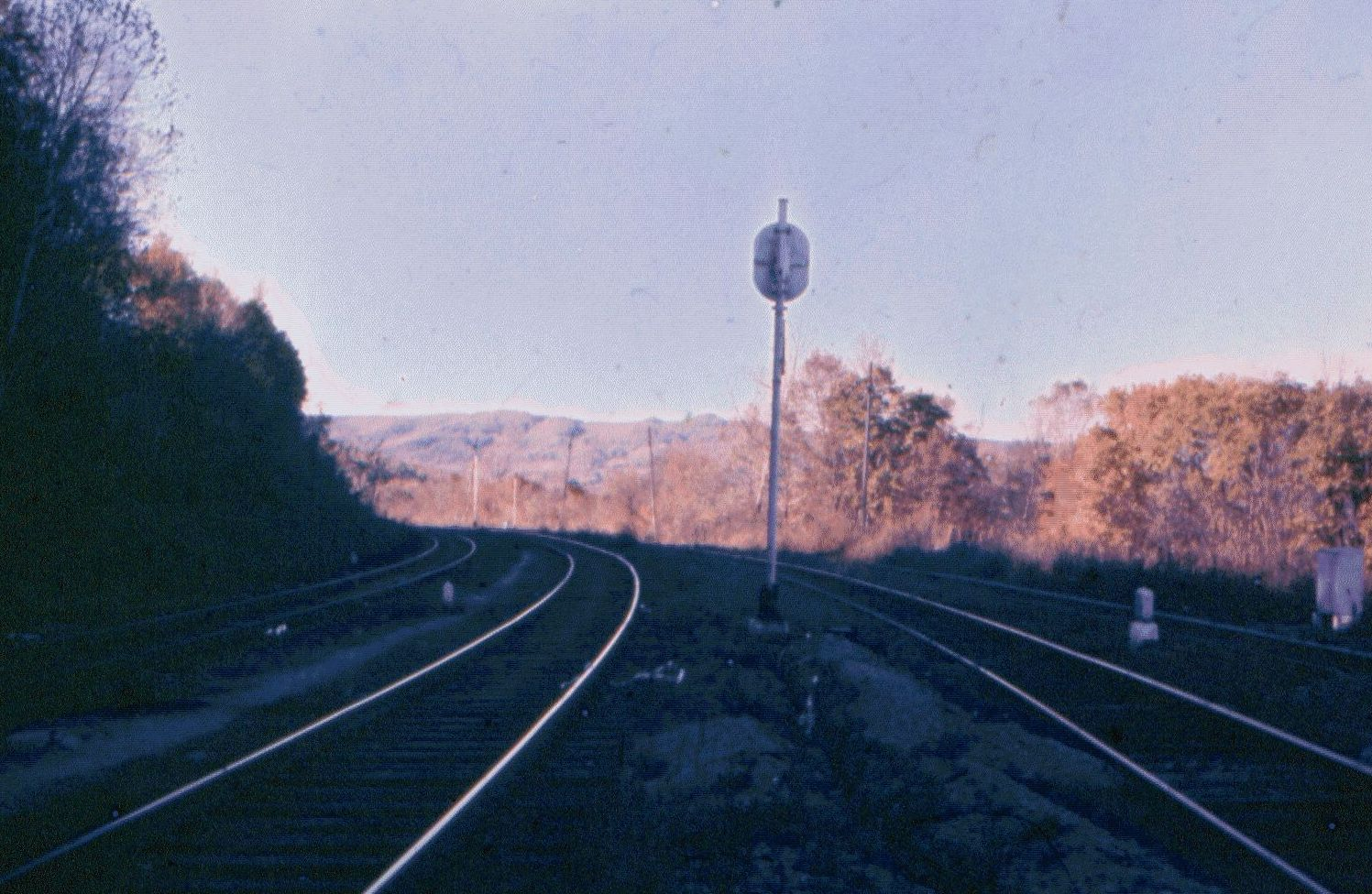 State border between Russia and China near Rassypnaya Pad train stop, Primorsky Krai